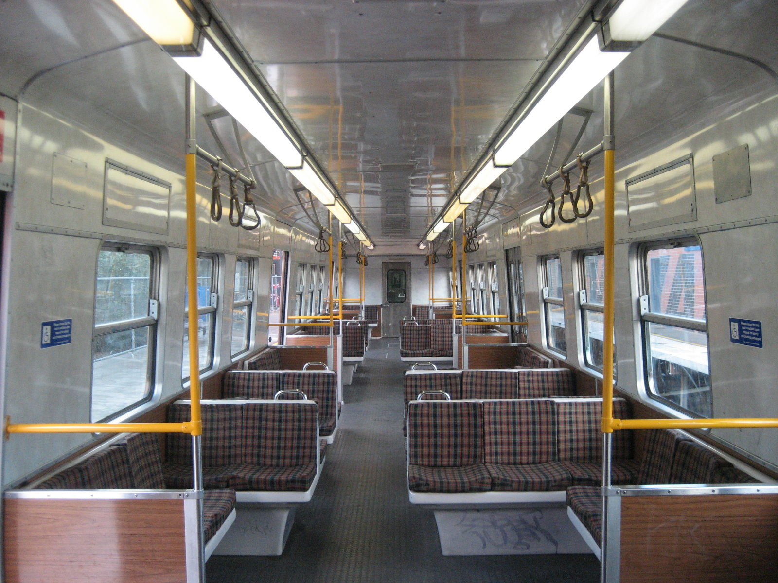 Interior of a Hitachi M car.